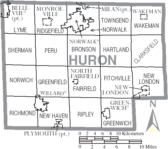 Map of Huron County, Ohio, United States with township and municipal boundaries